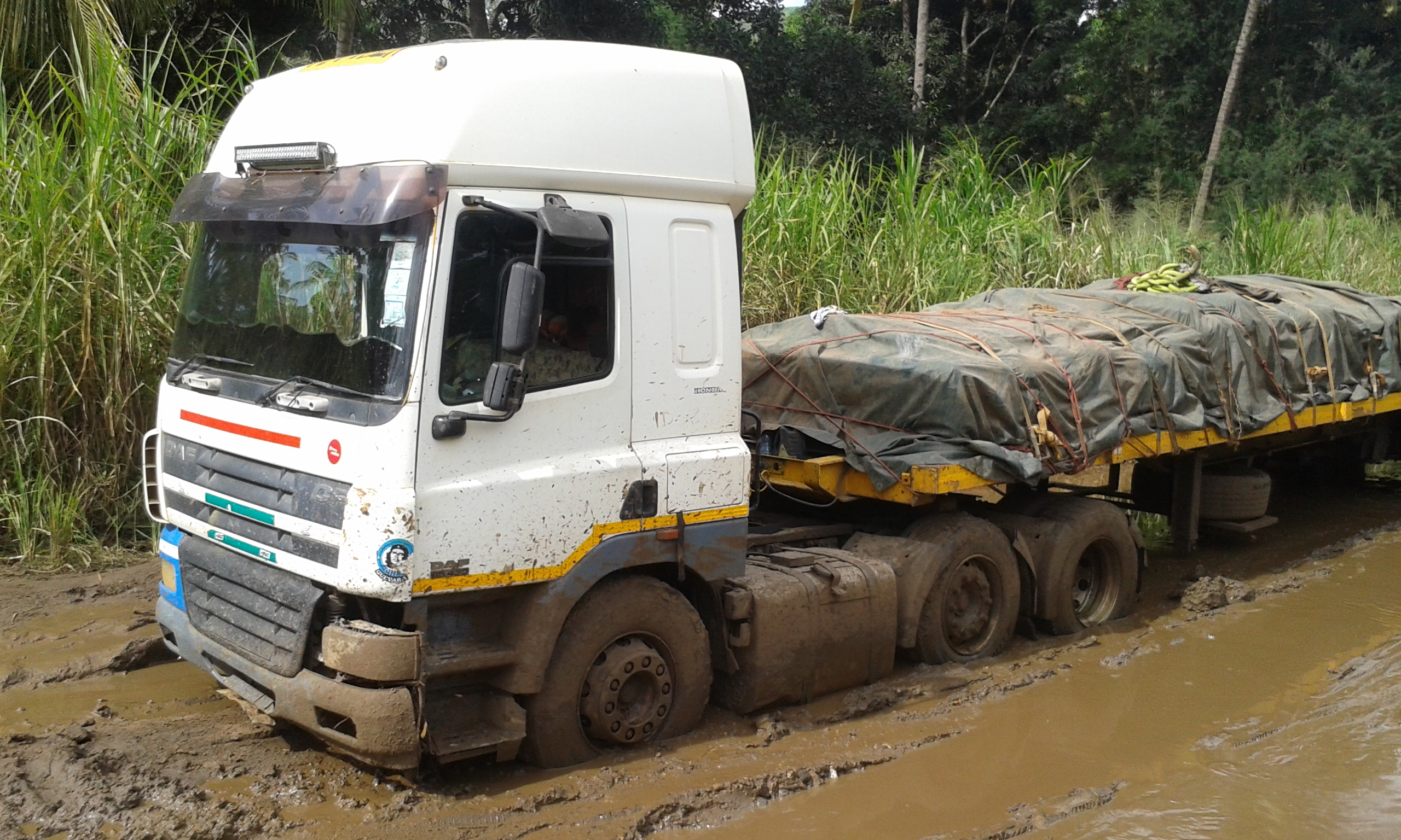 Mud flood on the village road near Morogoro, Tanzania This is an image with the theme "Africa on the Move or Transport" from: Tanzania